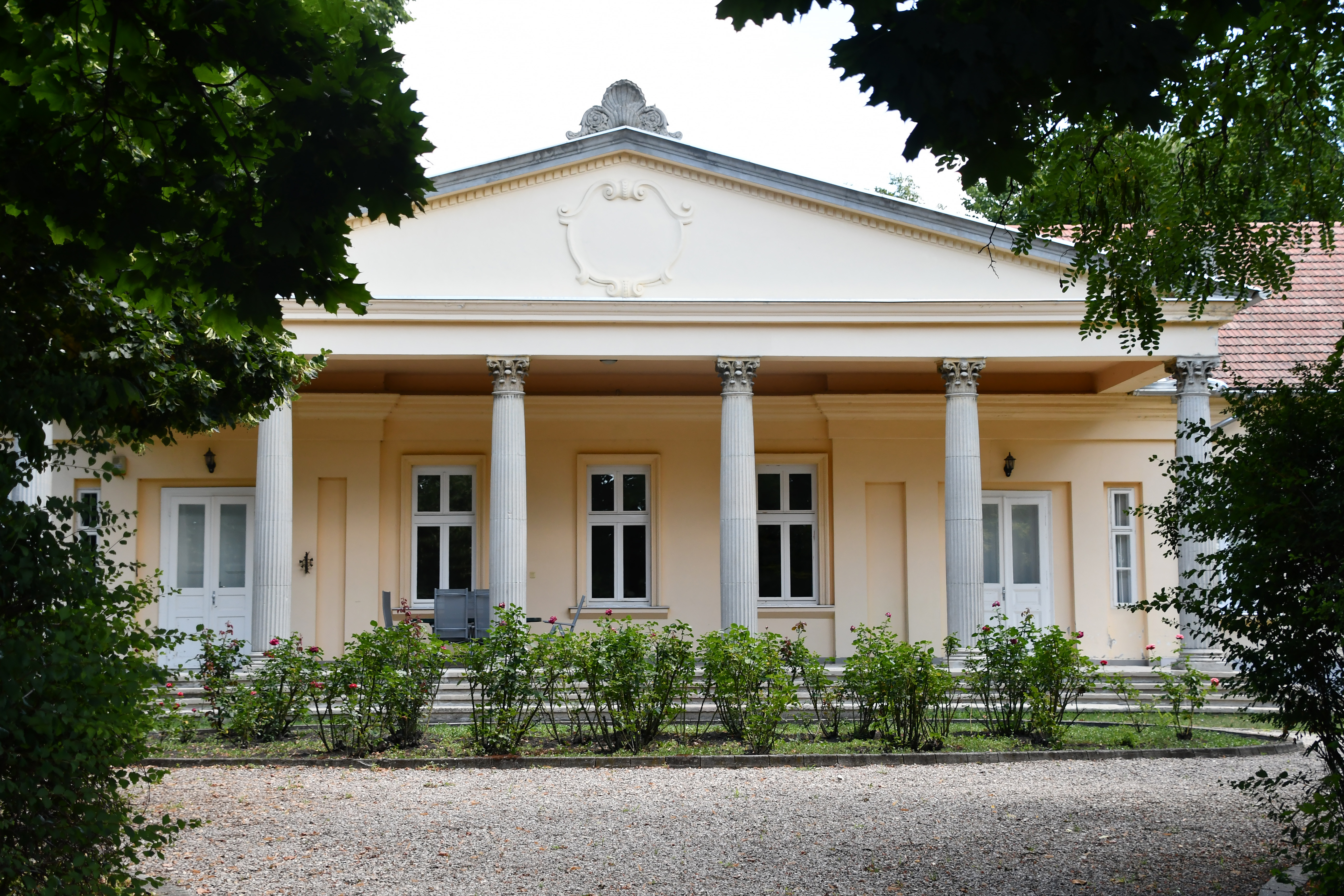 Mansion built in the 1820s in Aba, Fejér County, Hungary